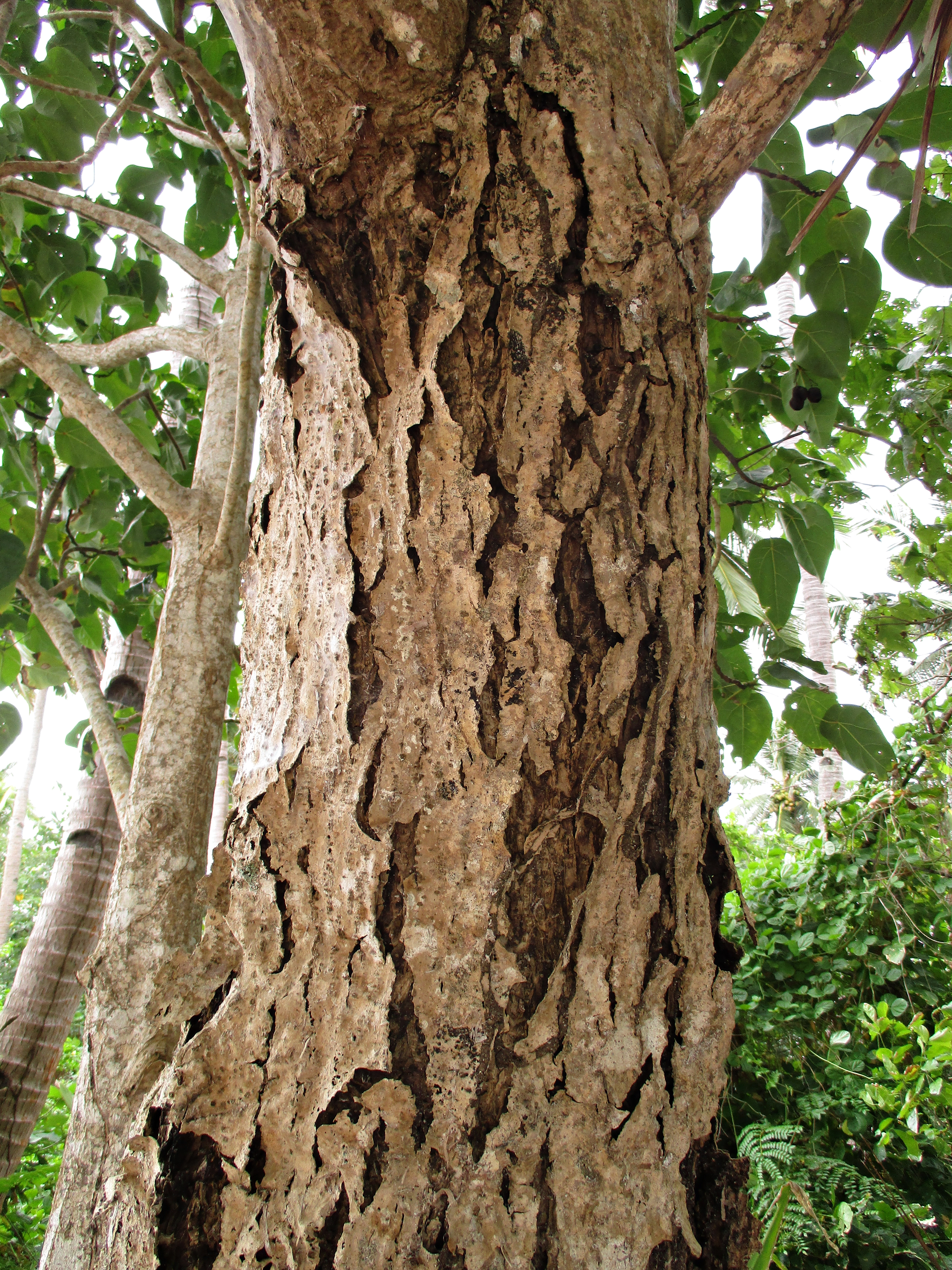 trunk of Chinese lantern tree (Hernandia nymphaeifolia) at Gusi Beach, east of Ereke, northern Buton Island, Southeast Sulawesi, Indonesia